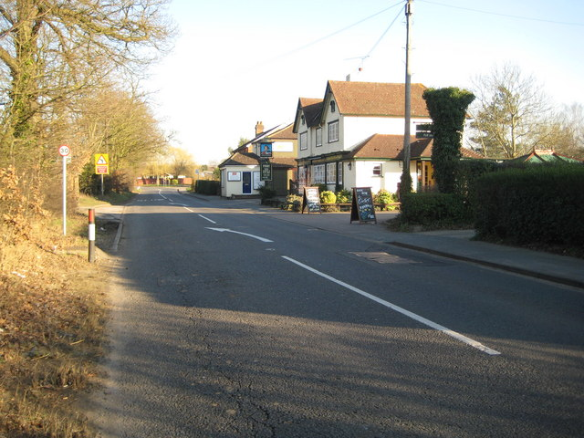 Willey Green: A323 Guildford Road & The Duke of Normandy PH The public house was established by 1855, and a search of the 1881 census shows the following residents: George CARPENTER, Head of the household, Married, Age 64, Birthplace: Newton, Hampshire, Occupation: Publican Lilly CARPENTER, Wife, Age 62, Birthplace: Harling, Sussex Sarah CARPENTER, Daughter, Unmarried, Age 34, Birthplace: Crayford, Sussex, Occupation: Servant George CARPENTER, Grandson Age 6, Birthplace: Clapham, Surrey, Occupation: Scholar Samuel SMITH, Lodger, Unmarried, Age 68, Birthplace: Worplesden, Surrey, Occupation: Agricultural Labourer William NORMAN, Lodger, Unmarried, Age 17, Birthplace: Worplesden, Surrey, Occupation: Agricultural Labourer